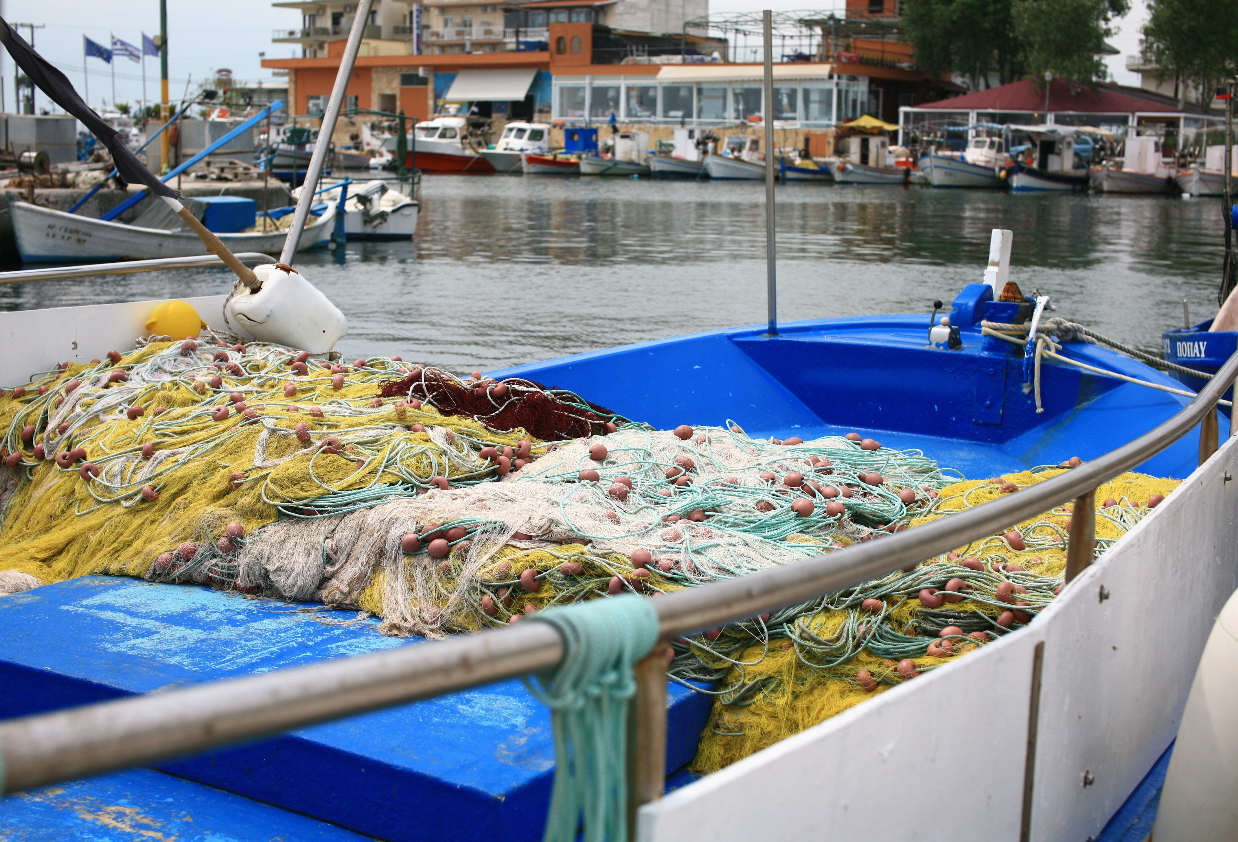 Greek boats